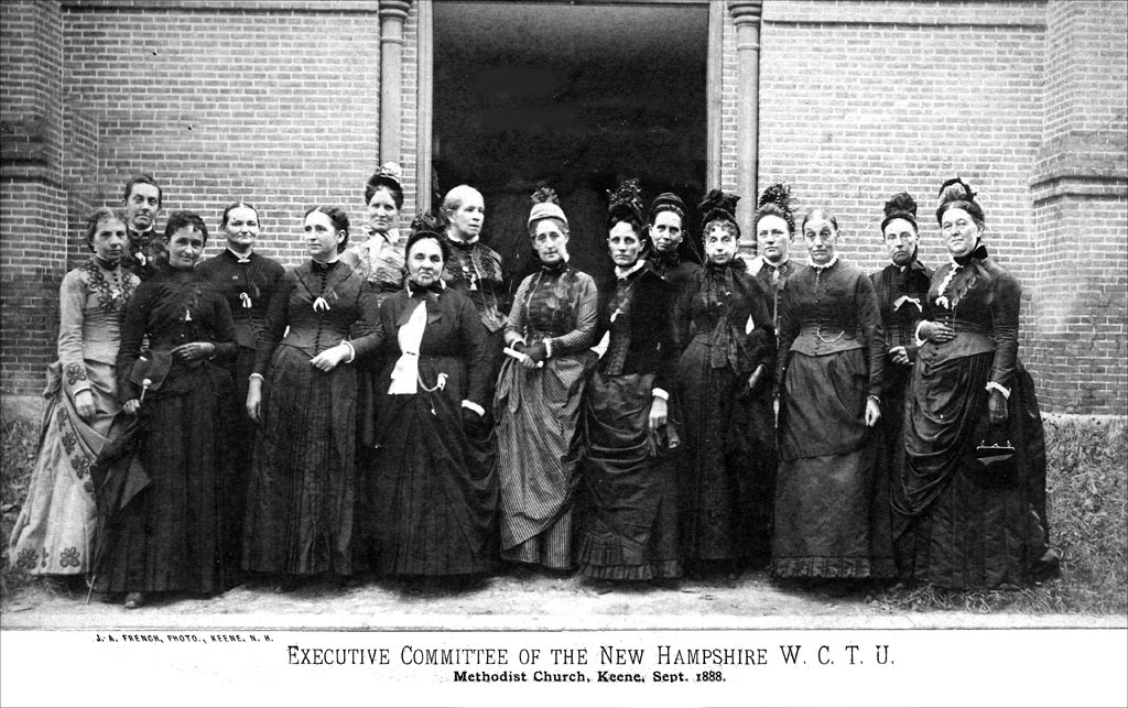 TITLE New Hampshire W.C.T.U. Executive Committee, in Keene New Hampshire CREATOR French, J.A., Keene NH SUBJECT People - NH - Keene Women - NH - Keene Temperance - NH - Keene DESCRIPTION Photograph of the New Hampshire Woman's Christian Temperance Union, meeting at the Methodist Church in Keene NH. PUBLISHER Keene Public Library and the Historical Society of Cheshire County DATE DIGITAL 20090928 DATE ORIGINAL 1888 RESOURCE TYPE photographs FORMAT image/jpg RESOURCE IDENTIFIER HS204-P110 RIGHTS MANAGMENT No known copyright restrictions.